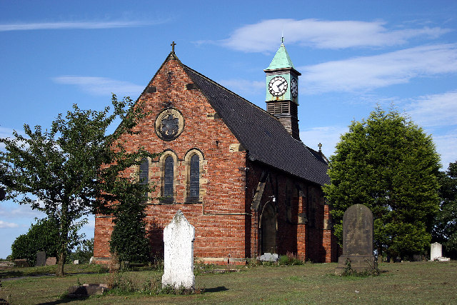 St Paul's parish church, Commercial Street, Trimdon Colliery, County Durham, seen from the southwest